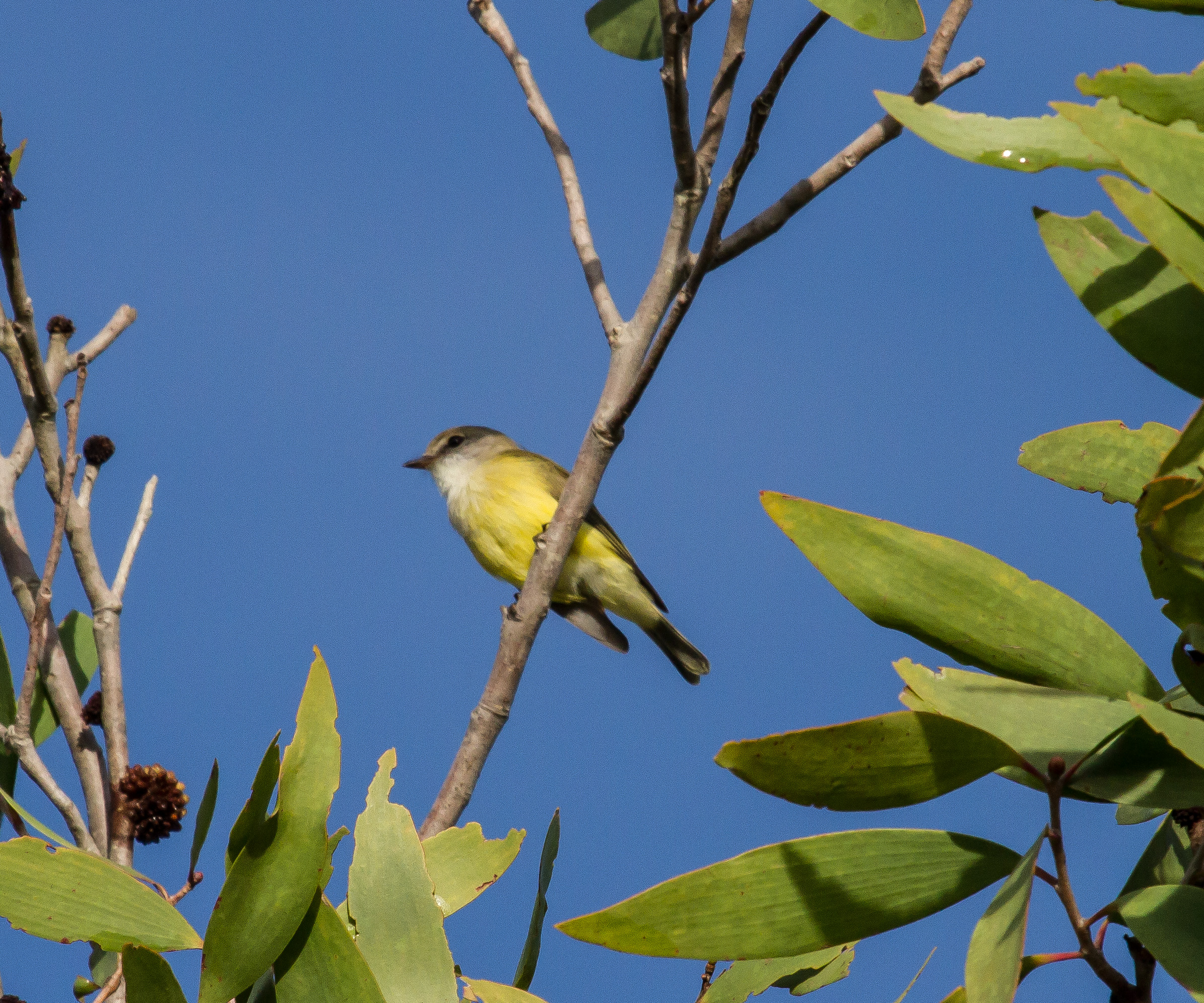 Weebill (Smicrornis brevirostris) - Fogg Dam - Middle Point - Northern Territory, Australia